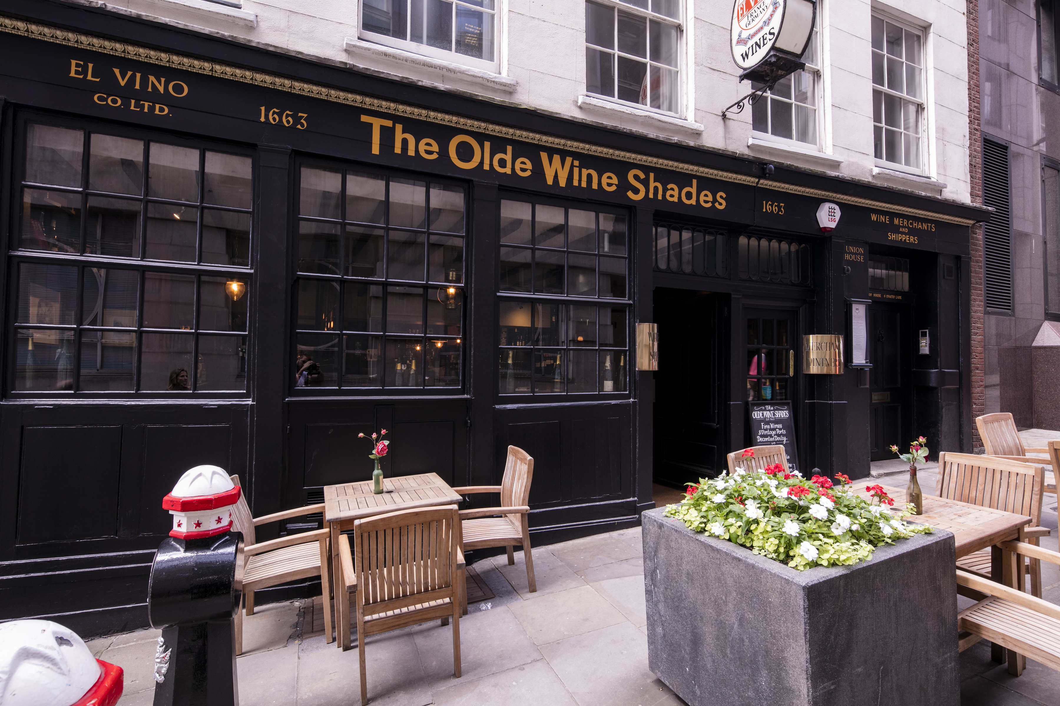 Exterior of The Olde Wine Shades, the oldest bar in the City of London, St Martins Lane